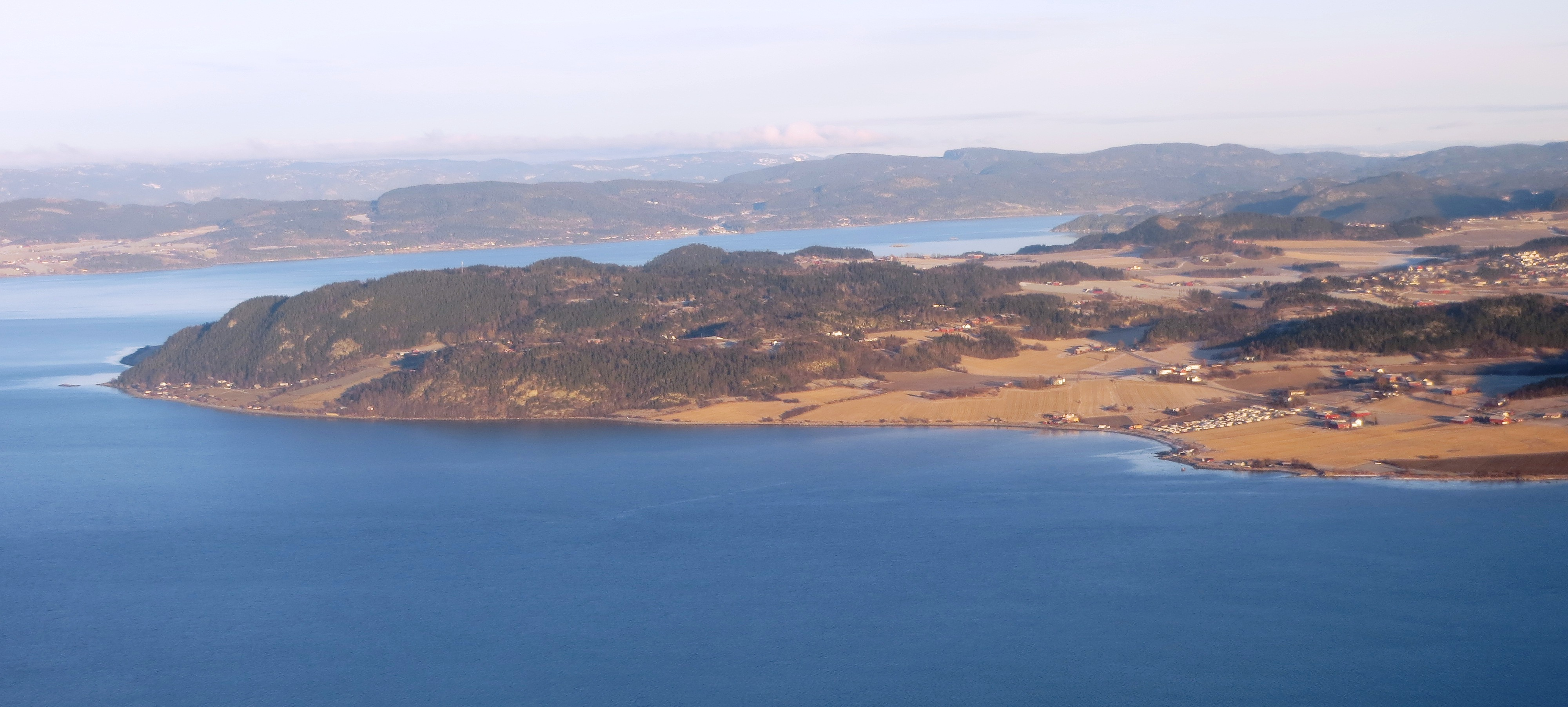 The area Skatval in the municipality of Stjørdal - Nord-Trøndelag county in Norway.